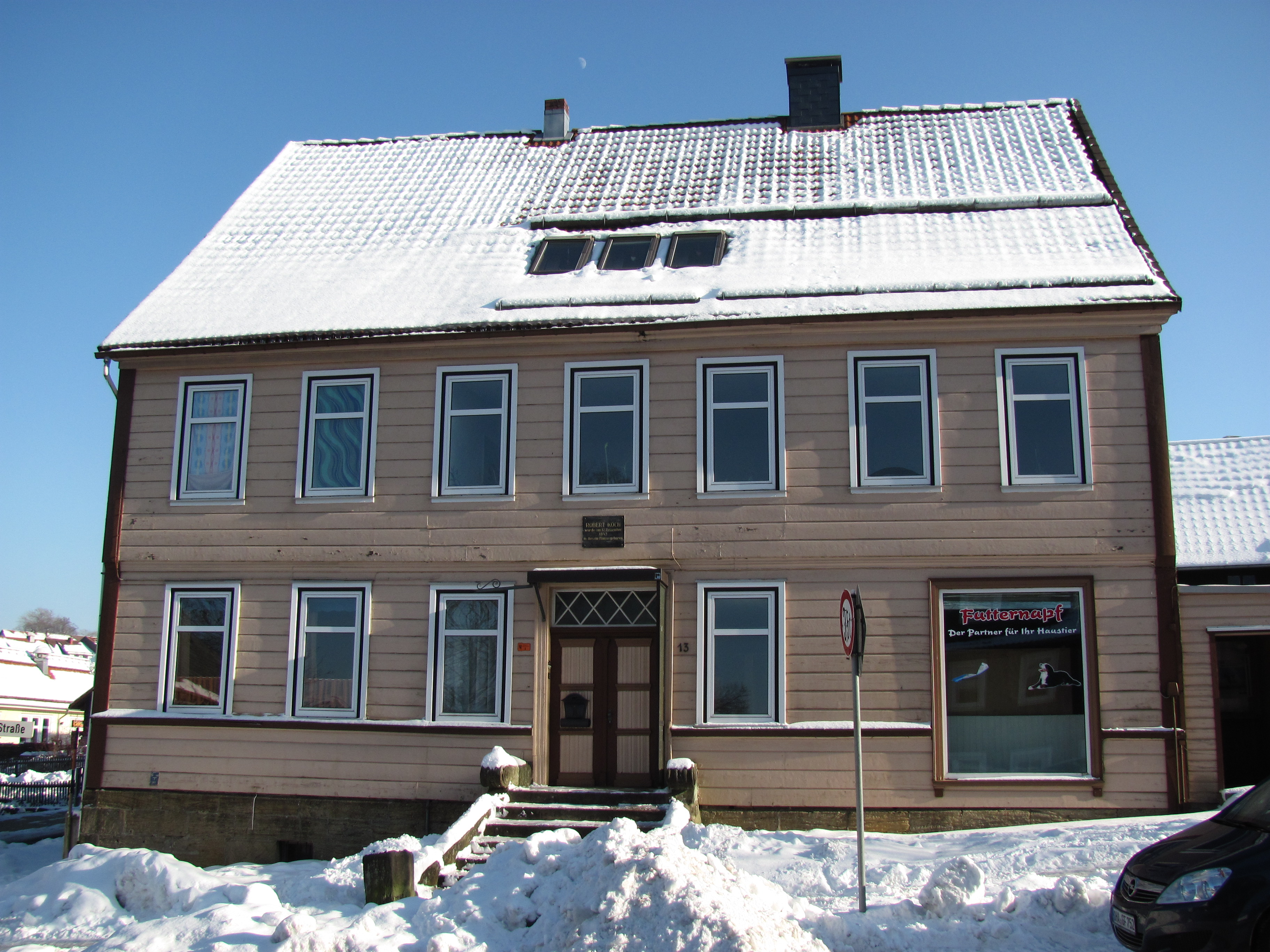 House where Robert Koch was born in Clausthal-Zellerfeld, Lower Saxony, Germany